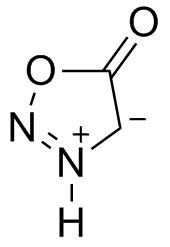 mesoionic 1,2,3-oxadiazolium-5-oxide